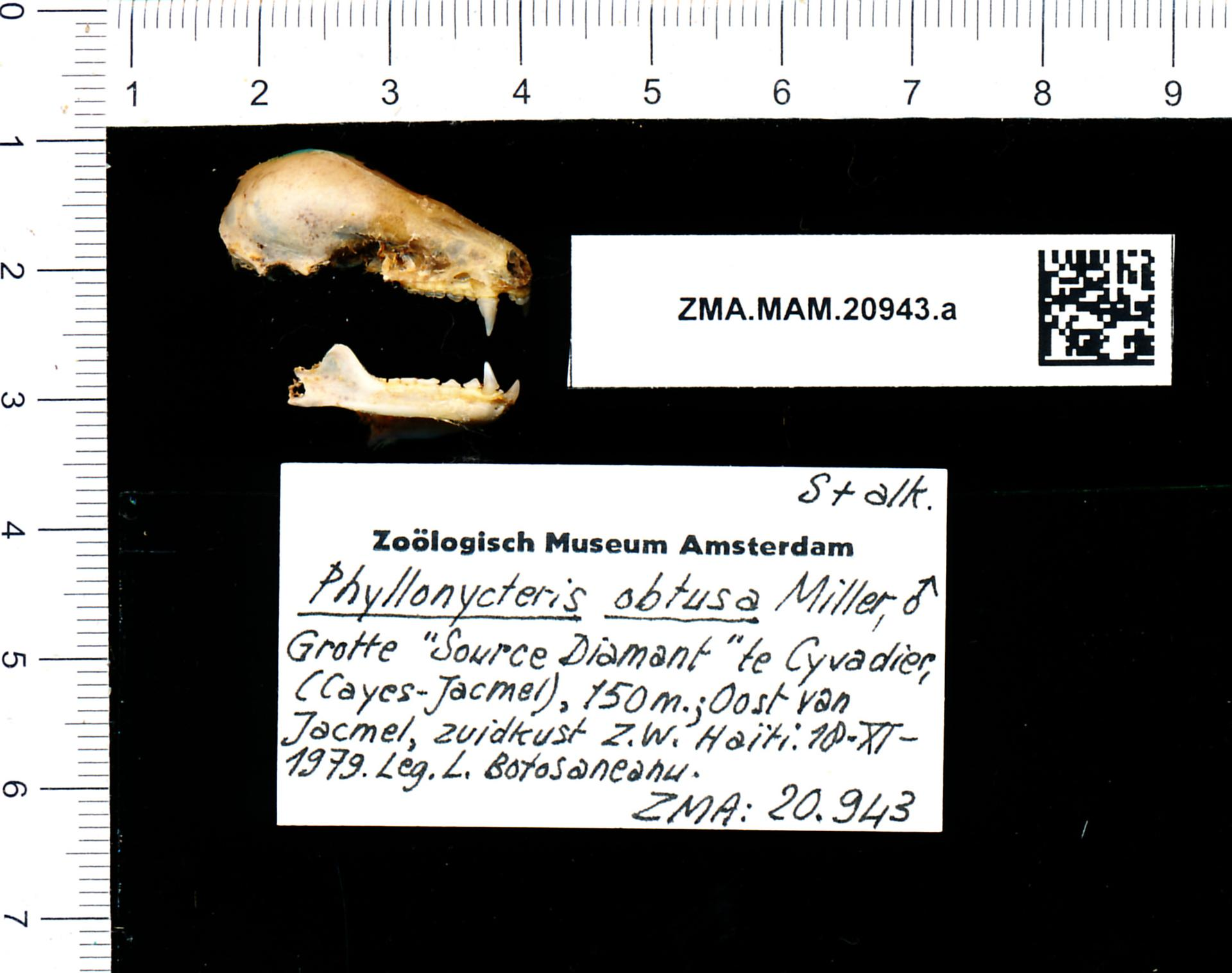 Phyllonycteris poeyi obtusa